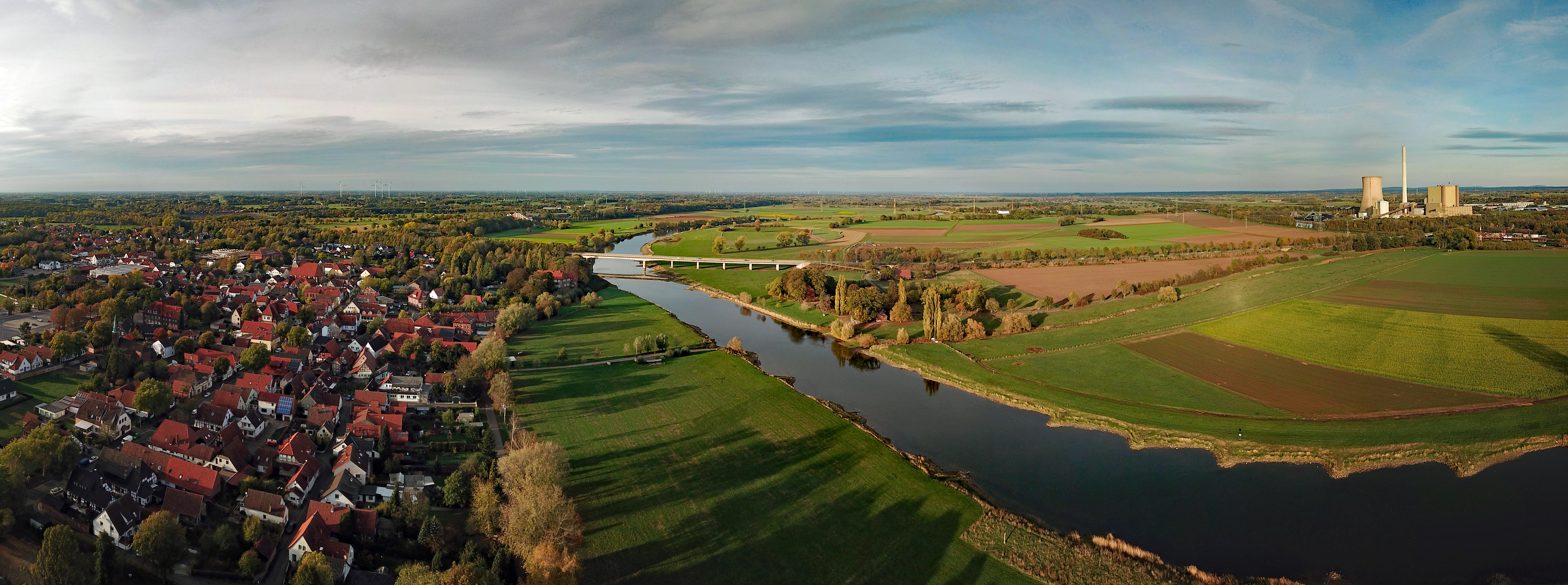 Petershagen (Lower Saxony, Germany)